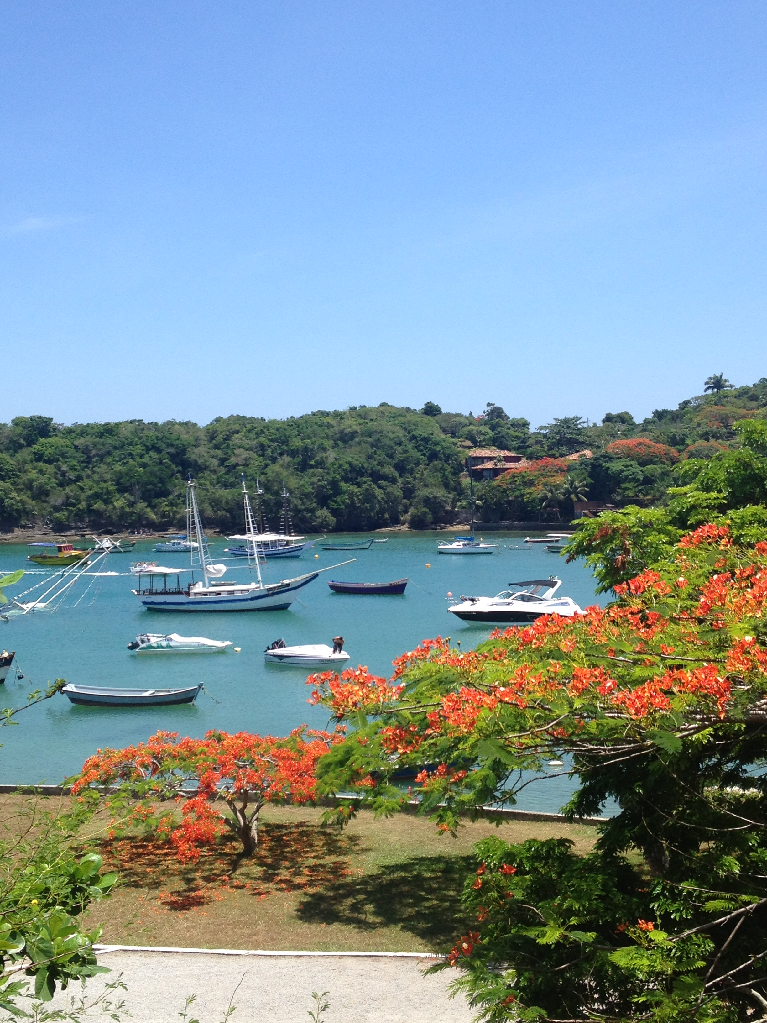 A View of Praia dos Ossos, Buzios